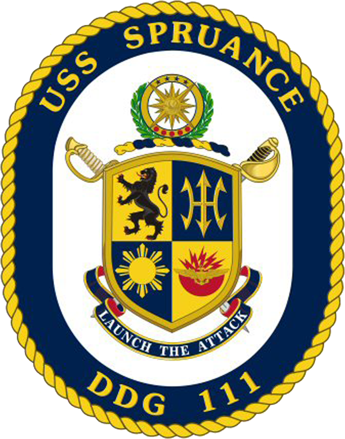 Emblem of the USS Spruance (DDG-111).